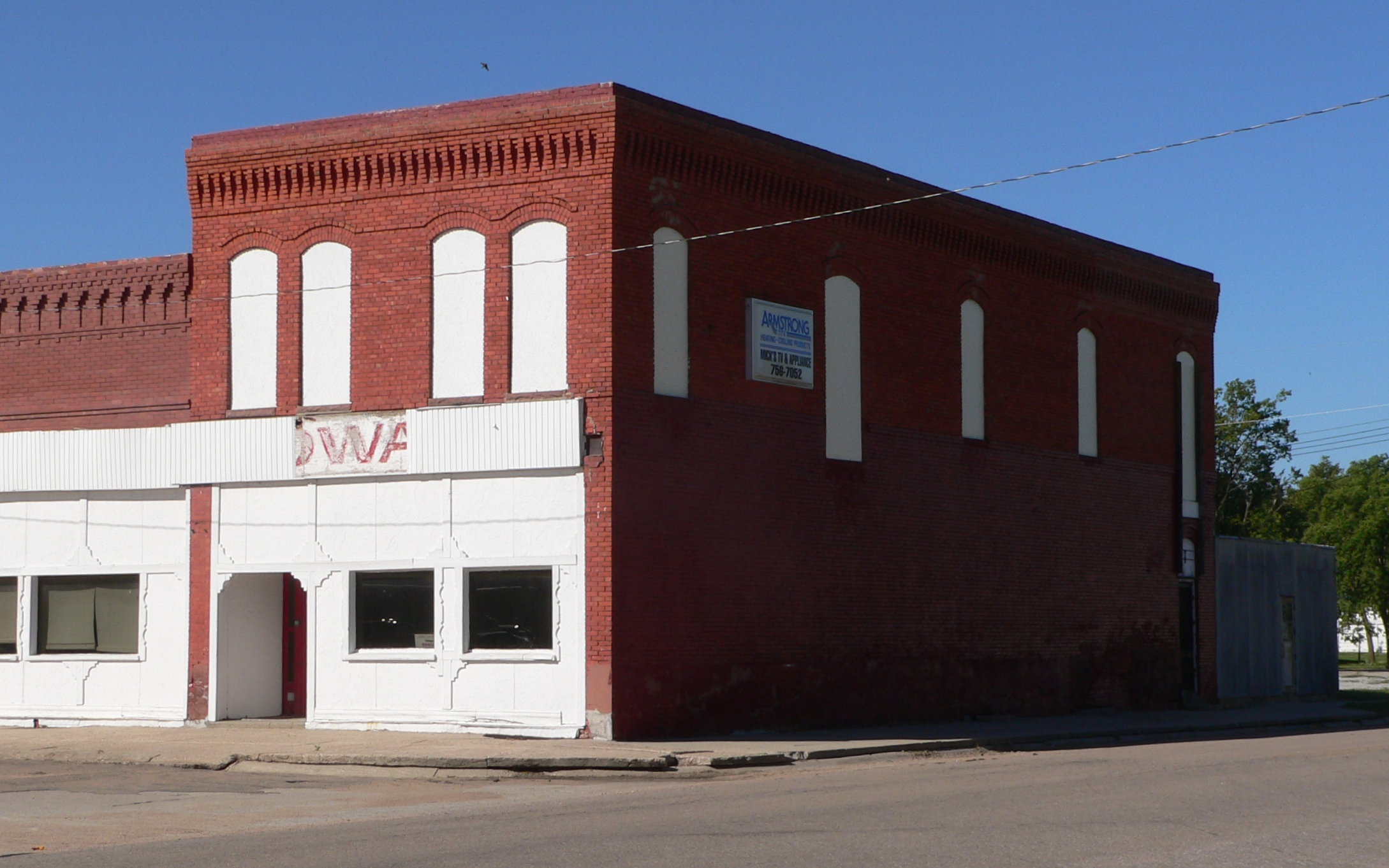 Lawrence Opera House, located at southwest corner of 2nd and Calvert Streets in Lawrence, Nebraska; seen from the northeast. The 1901 building is listed in the National Register of Historic Places.